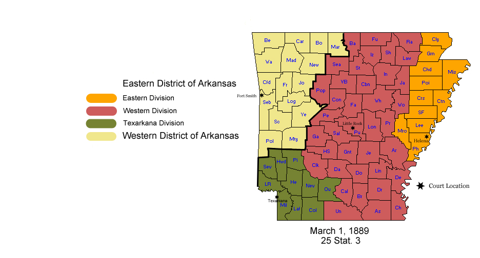 Arkansas districts - 1889